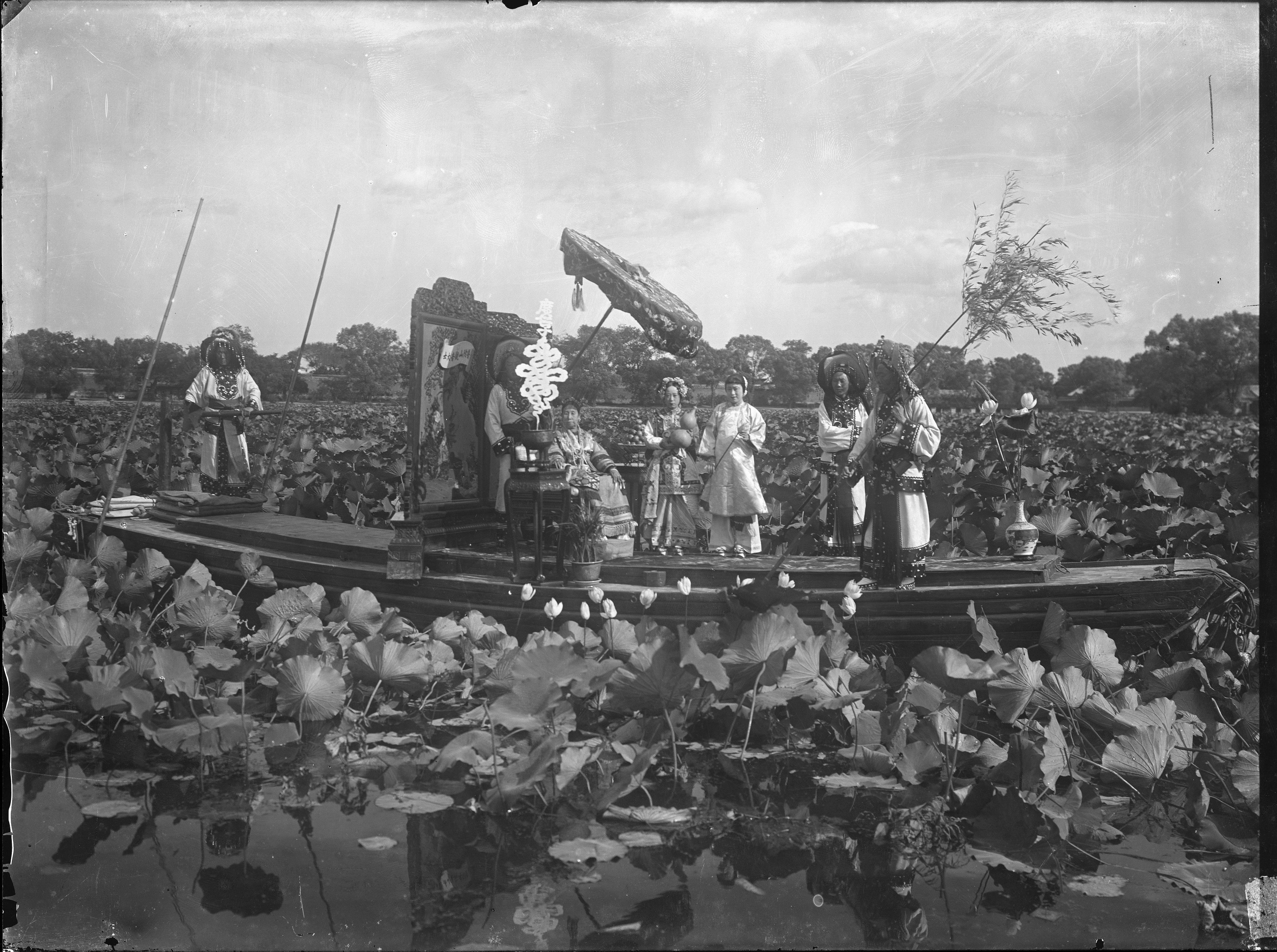 The Empress Dowager Cixi and attendants on the imperial barge on Zhonghai, Beijing 1903-1905. Published in Princess Der ling, Two Years in the Forbidden City (1911) facing page 90.